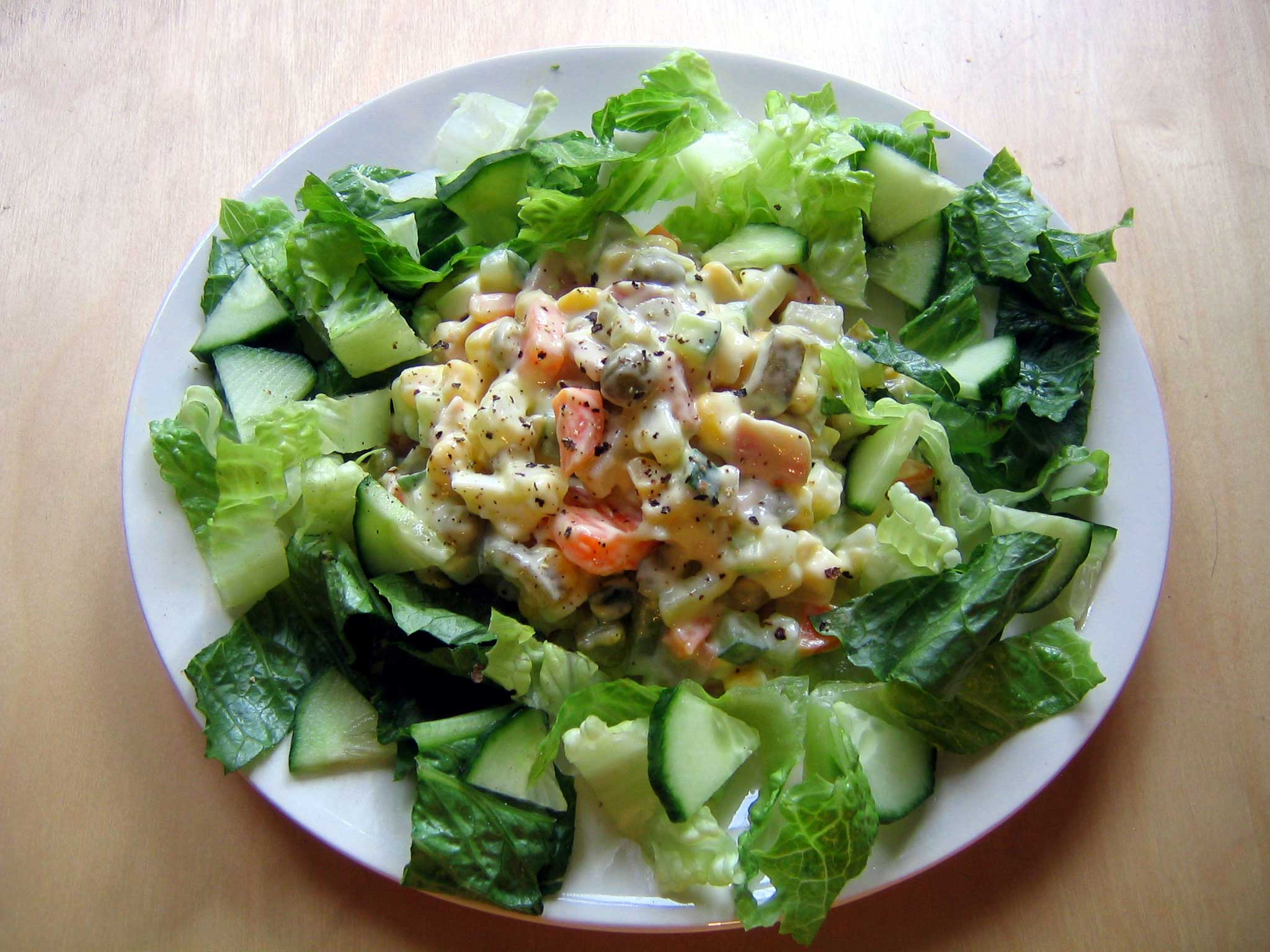 A home-made variant of the Russian Salad containing carrots, ham, onions, pickled gherkins, eggs, sweetcorn, cucumber, peas, potato and mayonnaise.